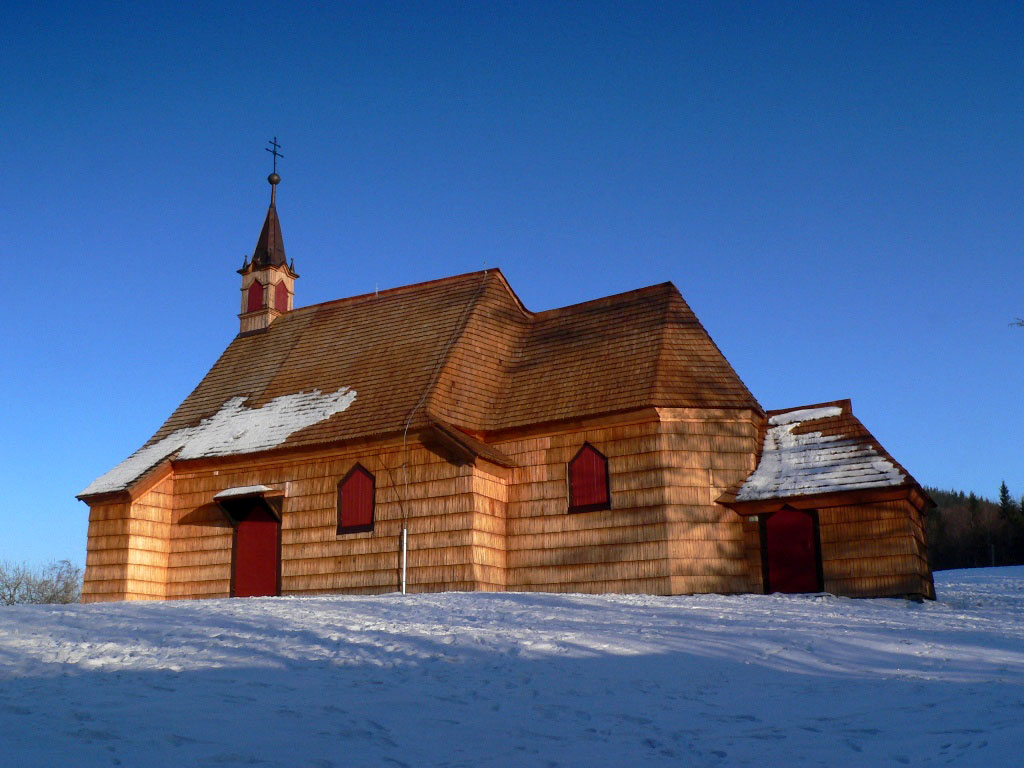 Saint Anthony of Padua Church on the Malá Prašivá (Praszywa) mountain, Moravian-Silesian Beskids, Czech Republic.